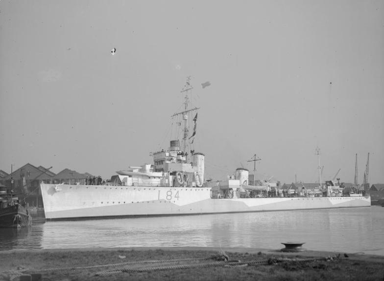 Photograph of British destroyer flotilla leader HMS Keppel (L84).